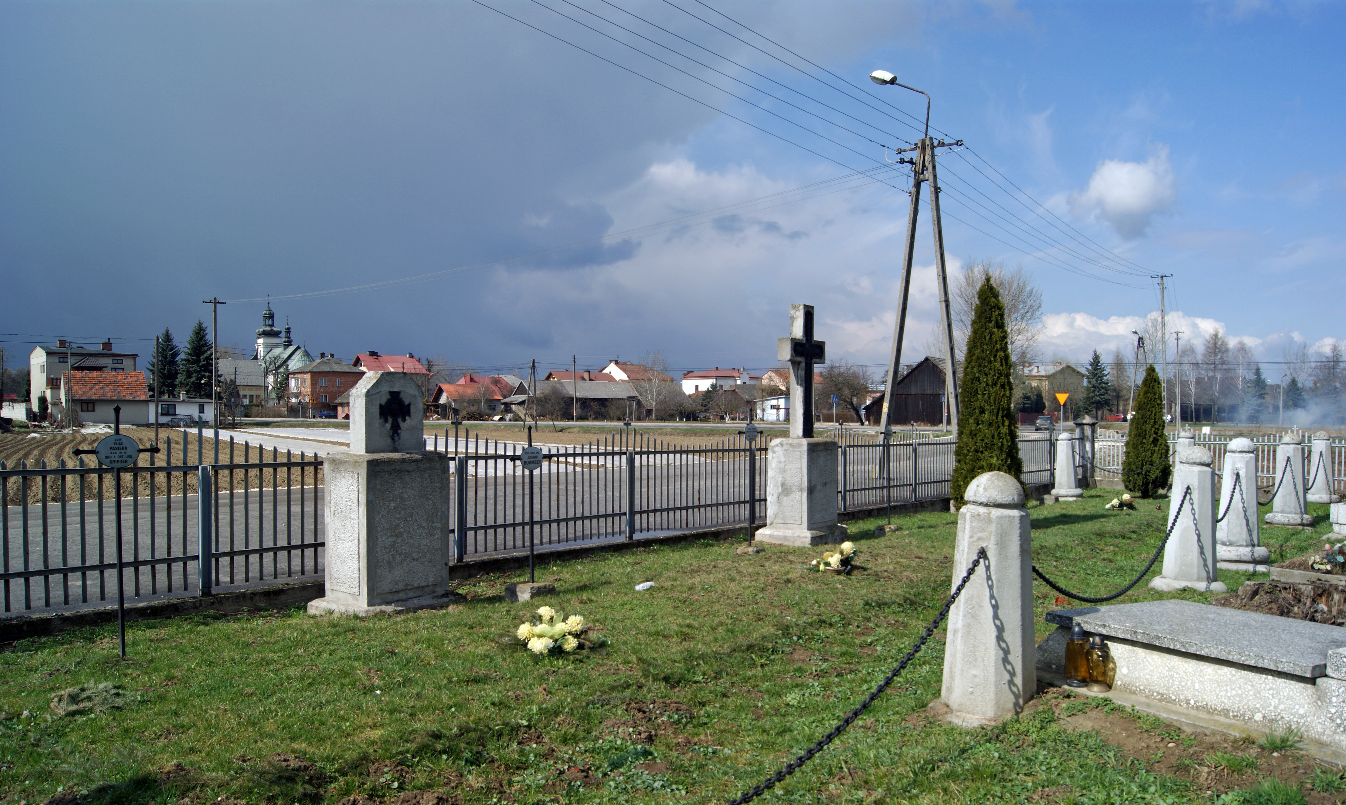 WW I, Military cemetery No. 319 Uscie Solne, Uscie Solne village, Brzesko County, Lesser Poland Voivodeship, Poland